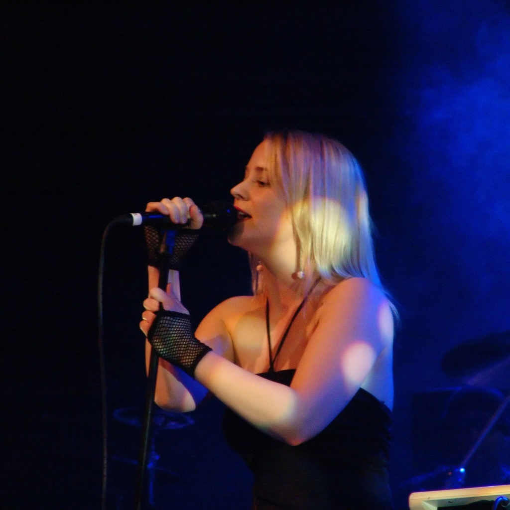 Annie playing at Teatergarasjen, Bergen, Norway, on 5th of May 2005.